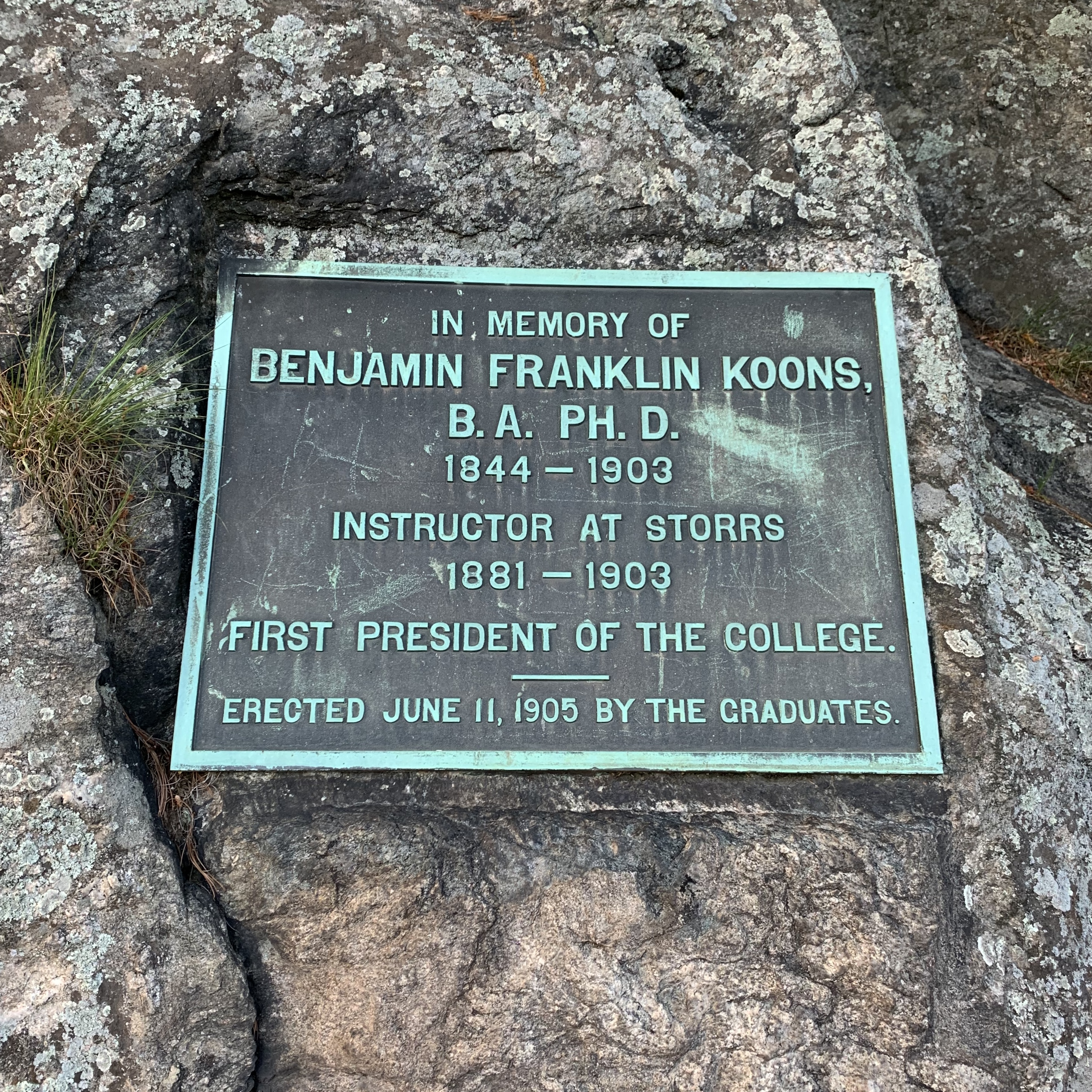 Plaque commemorating University of Connecticut president Benjamin F. Koons (1844–1903), installed on campus by alumni in 1905 on North Eagleville Road, Storrs, Connecticut